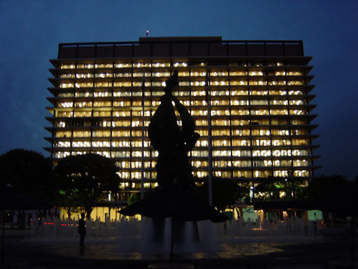 John Ferraro Building in Los Angeles. Photo taken by Bobak Ha'Eri. December 22, 2004. Please observe license and properly cite in use outside Wikipedia.